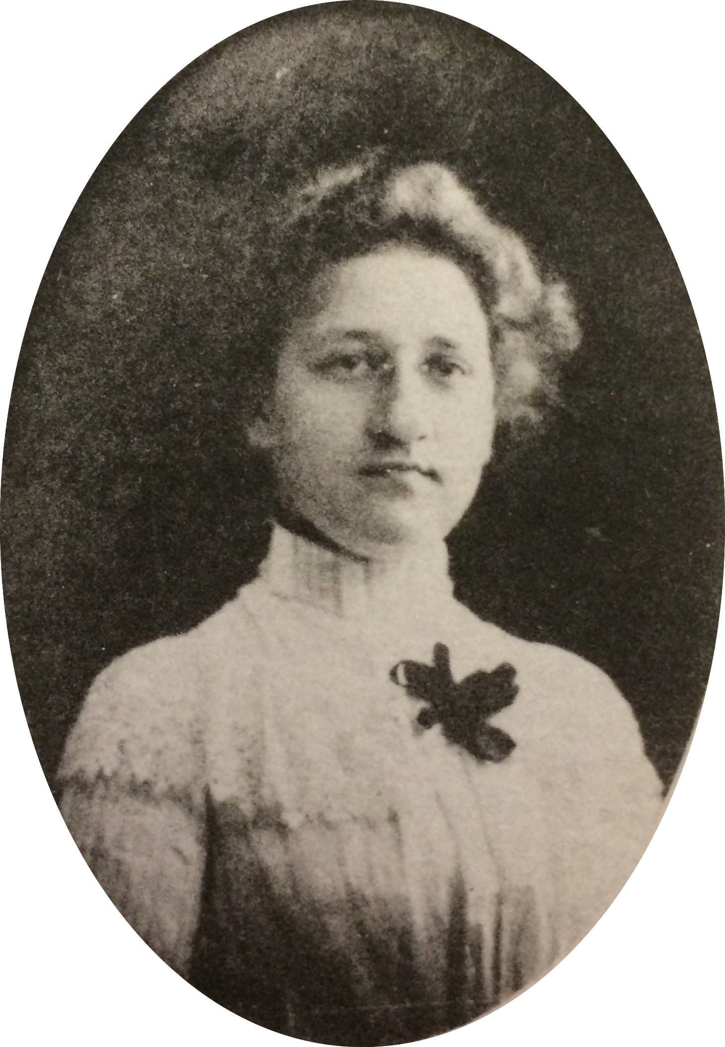 Picture of Charlotte Burgis DeForest from Smith College class of 1901 yearbook.